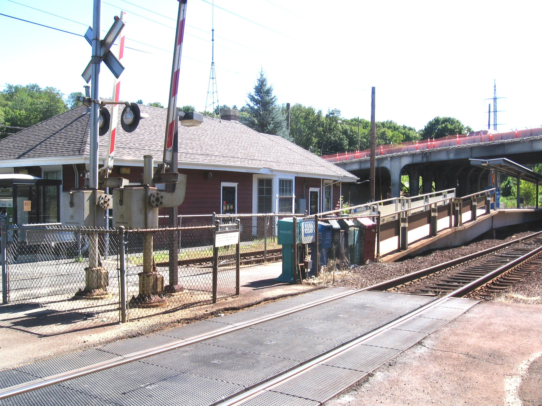 Station house, tracks and entrance at the north end of the platform at the Wilton Railroad Station in Wilton